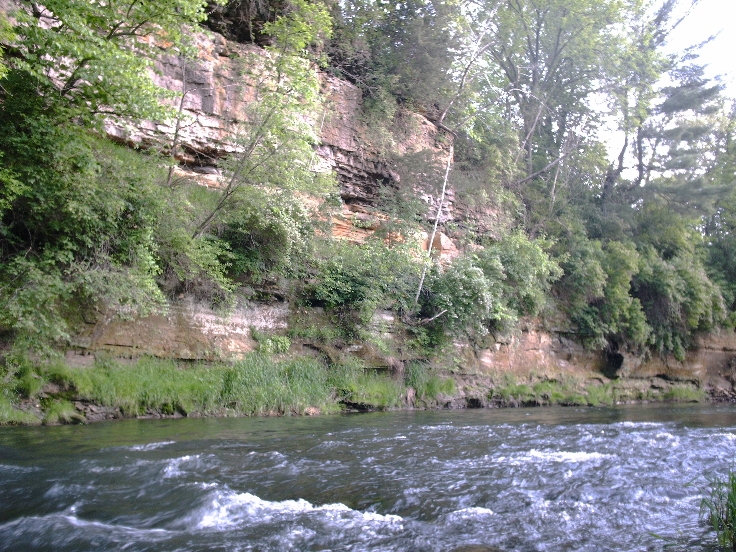 The Root River and bluff in Preston, Minnesota, United States